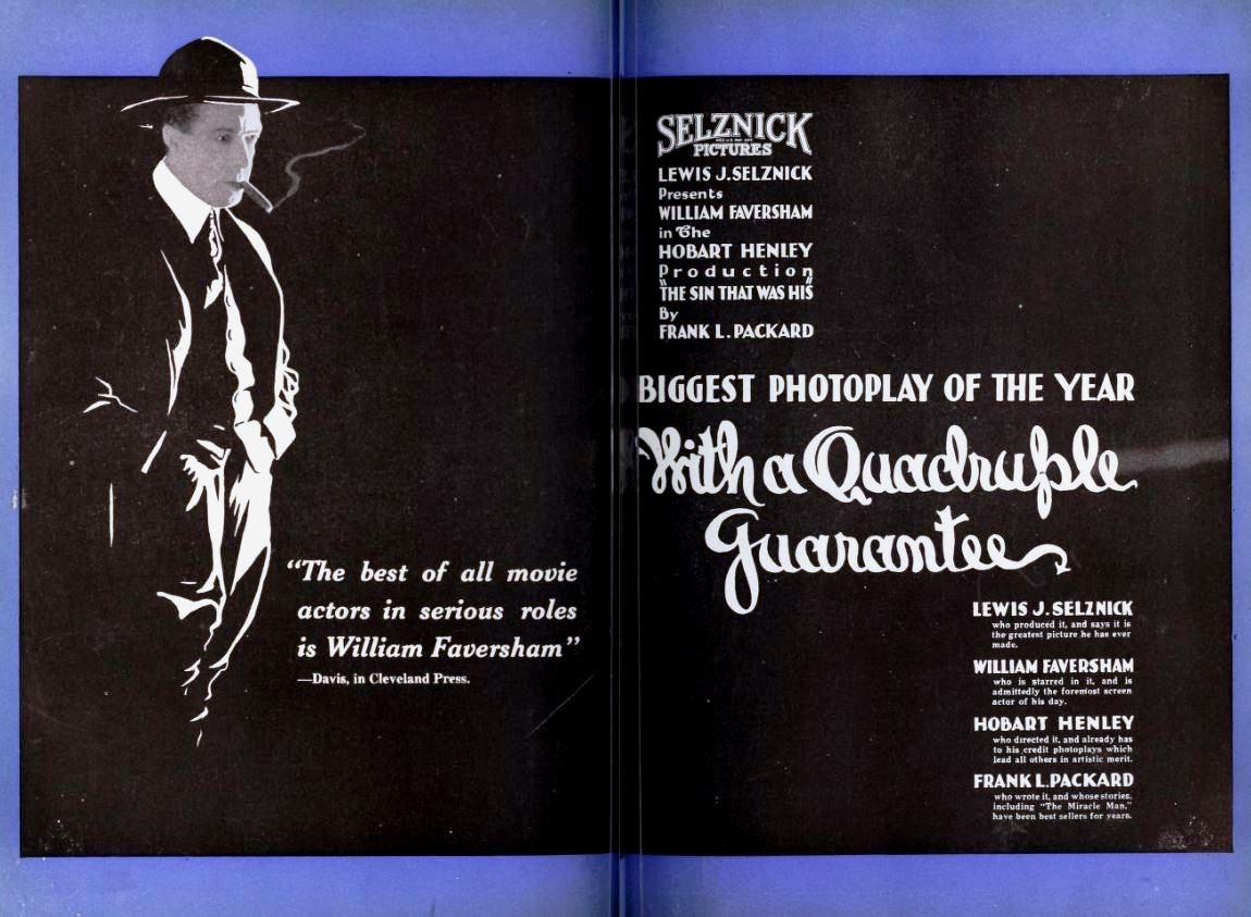 Advertisement for the American drama film The Sin That Was His (1920) with William Faversham, from the insert after page 18 of the December 18, 1920 Exhibitors Herald.